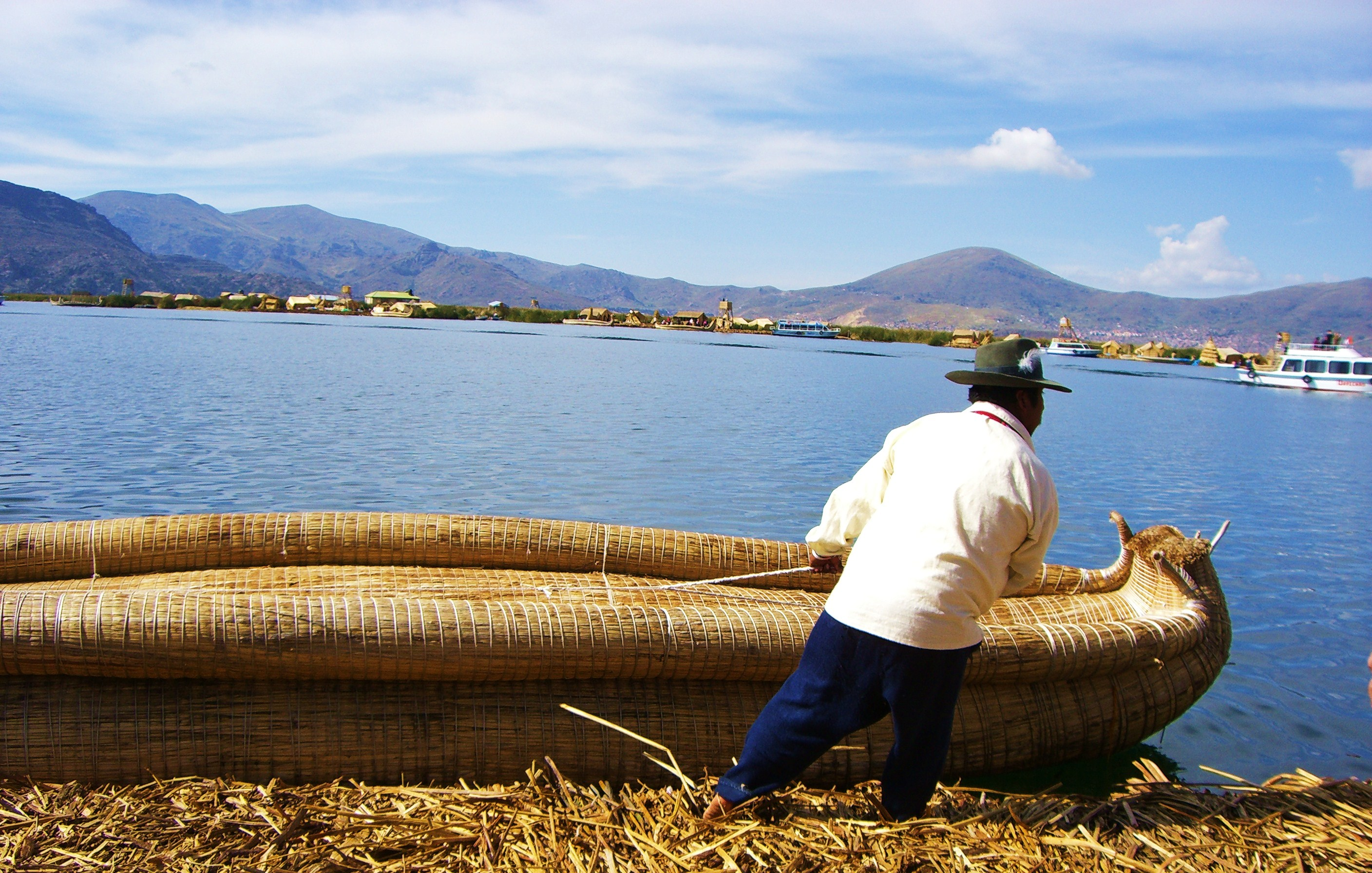 This is a picture of a man pulling a reed boat on the floating islands of the Uros on Lake Titicaca Author is Ben Pearson, who posted this picture. Original source is . Any commercial use of the image should go through the above site. Any non-commercial use posted in public places should reference the above URL, but otherwise may be used.